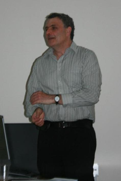 Prof. Nathan Sussman